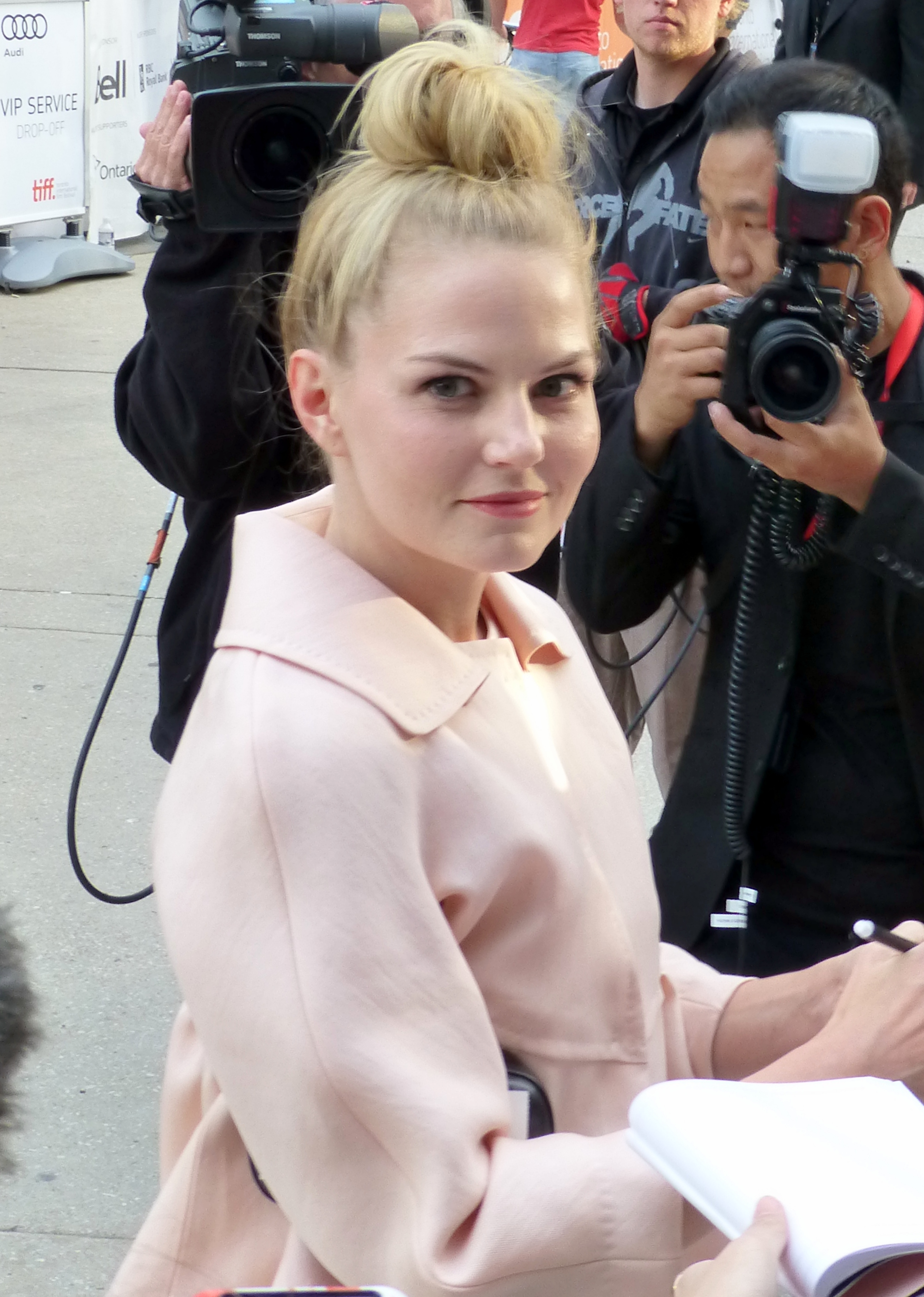 Actress Jennifer Morrison at the Toronto International Film Festival, September 2013